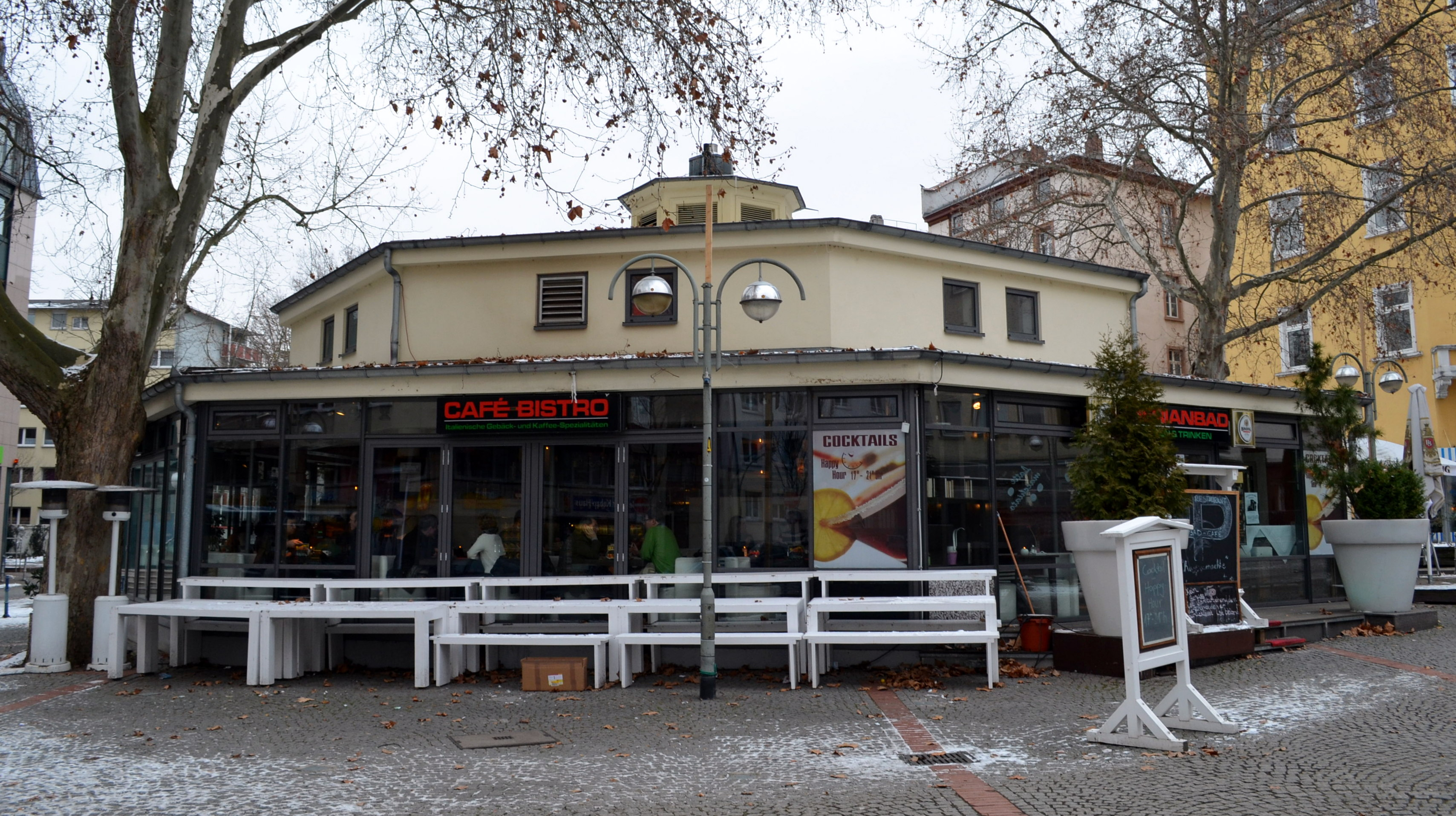 Merianbad in Frankfurt am Main